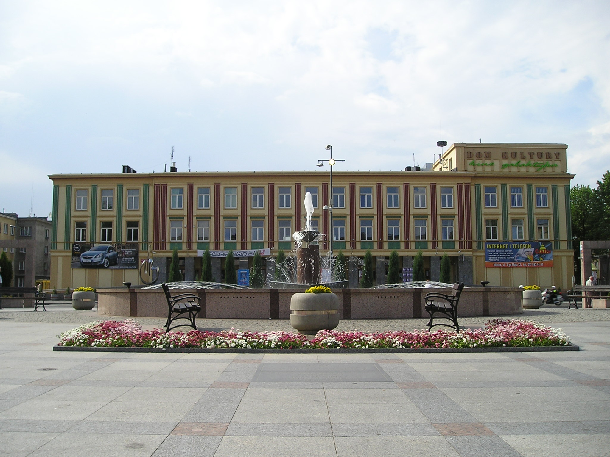 Square of Armia Krajowa (Home Army) in Mielec, Poland, the Building of Samorządowe Centrum Kultury (community centre) in the back